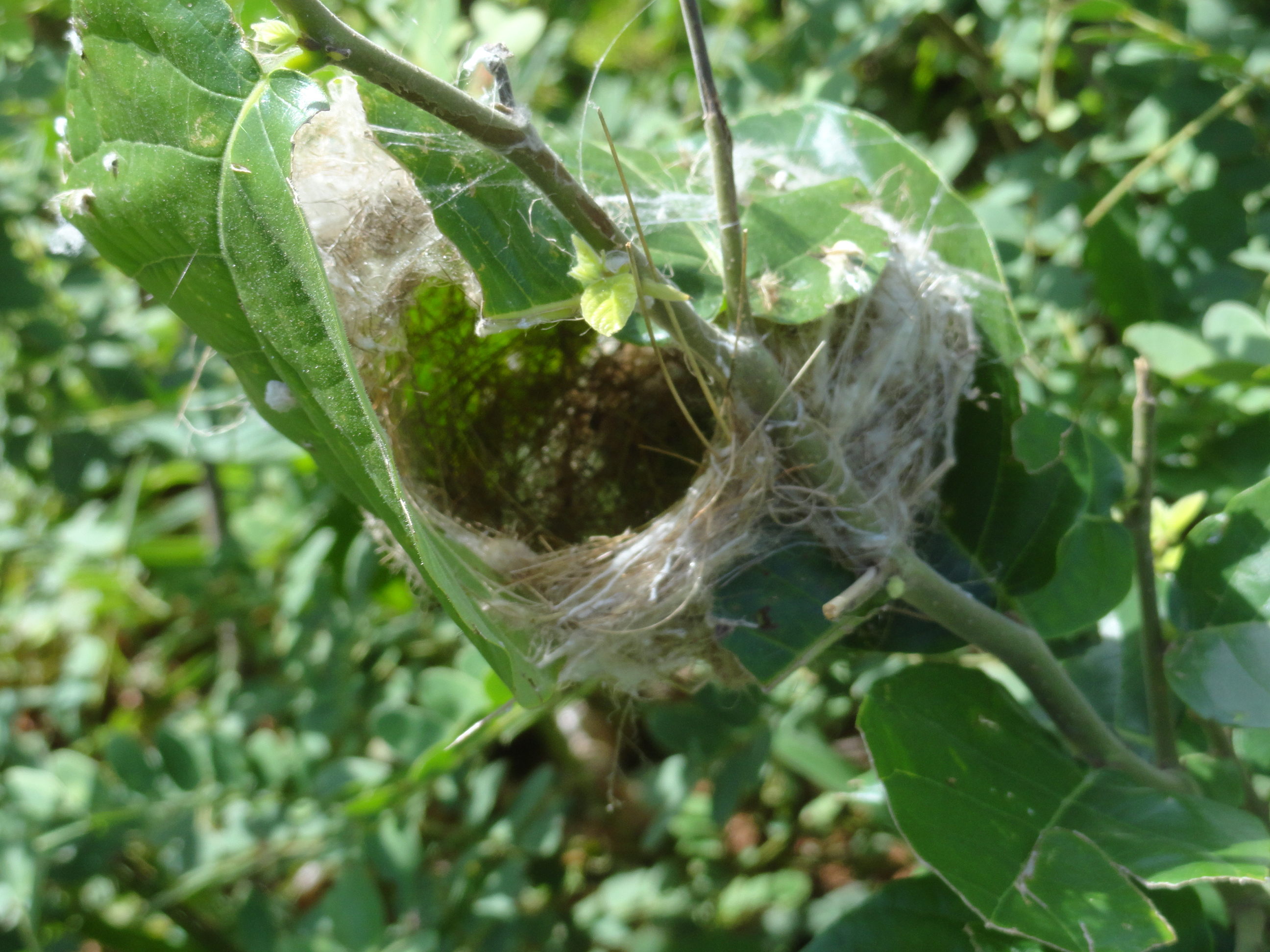 A birds nest. dt. 9.8.13 picture taken near nagarjunasagar